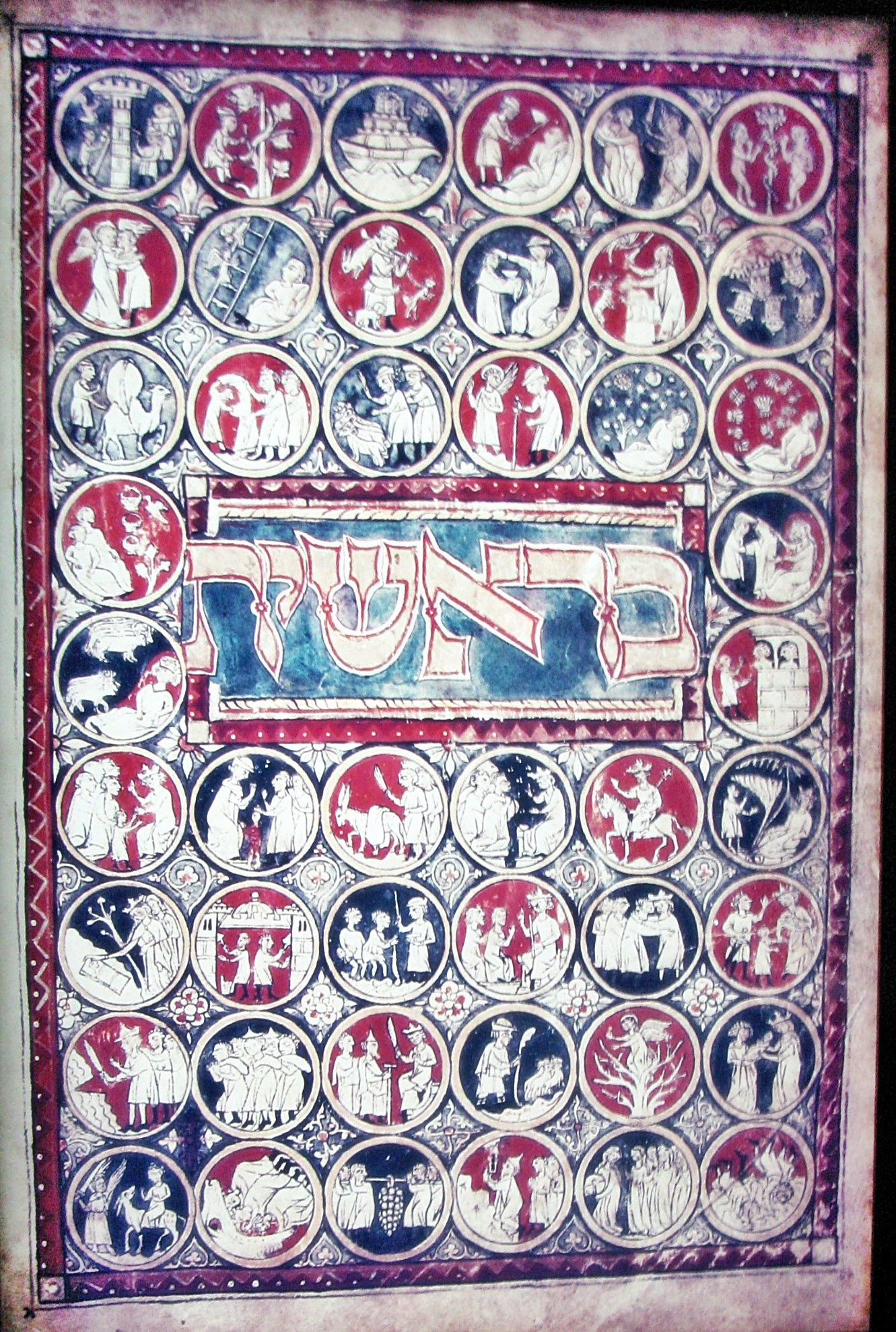 An exhibit depicting "Pentateuch/Torah frontispiece of the Schocken Bible" at the Diaspora Museum, Tel Aviv Beit Hatefutsot. Photo was taken by User:Sodabottle